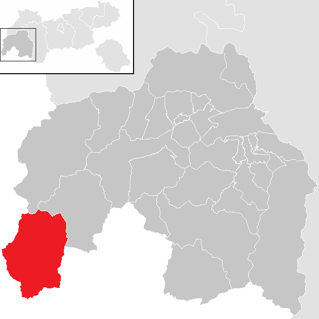 District Landeck